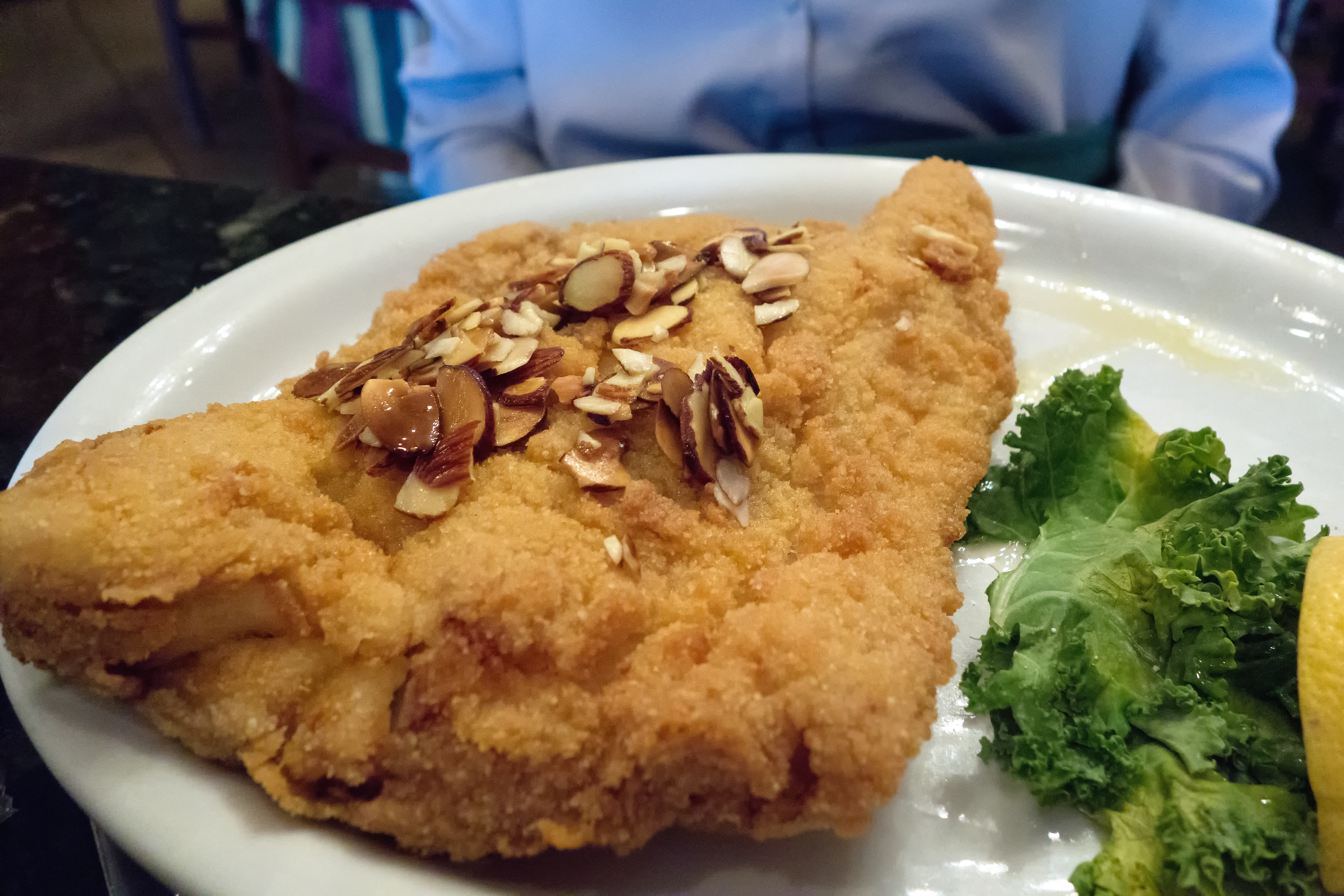 Jenny liked her fried snapper almondine at The Bright Star for Thanksgiving. The Bright Star, in Bessemer Alabama, received an America's Classics award from the James Beard Foundation in 2010. The restaurant is a fusion of "Greek meets Southern" per the foundation.